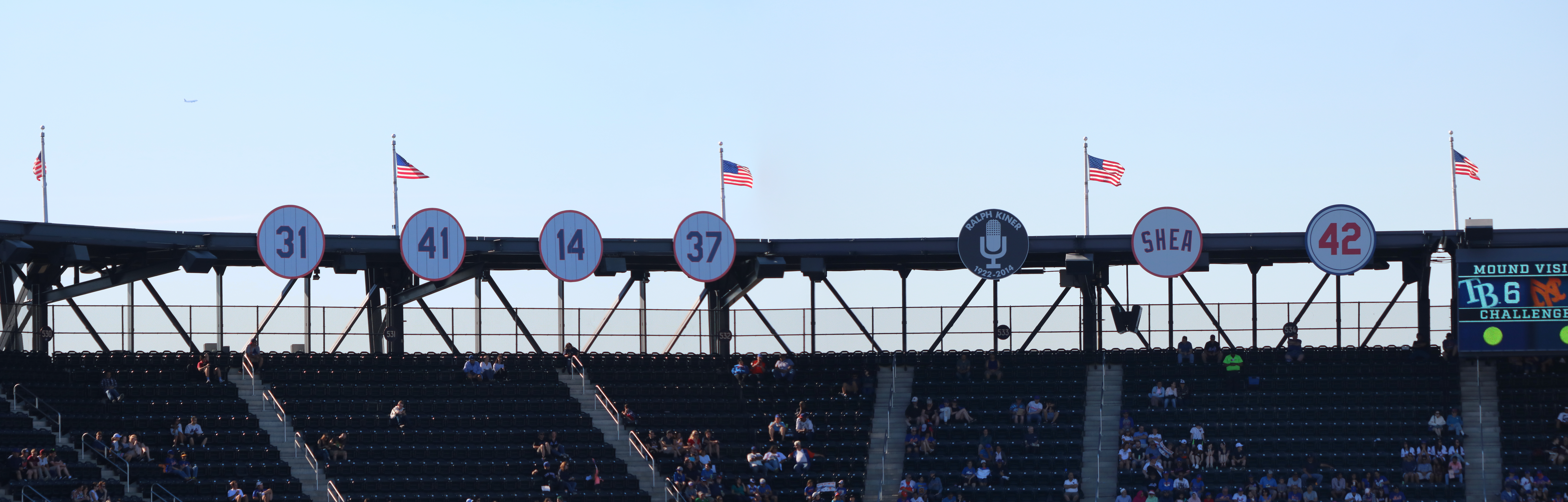 Citi Field retired numbers 2018